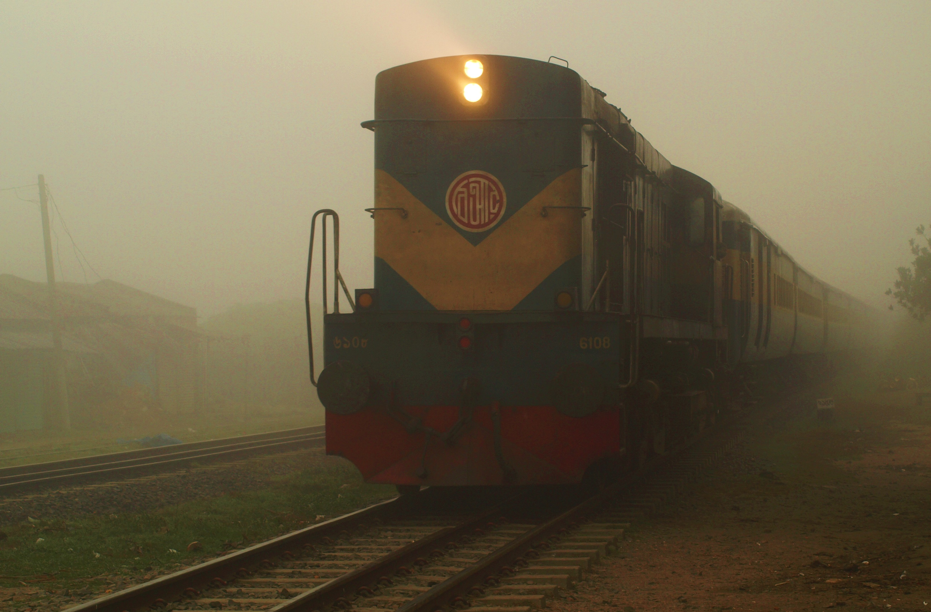 Winter Morning in Azimnagar Rail Station Natore Bangladesh